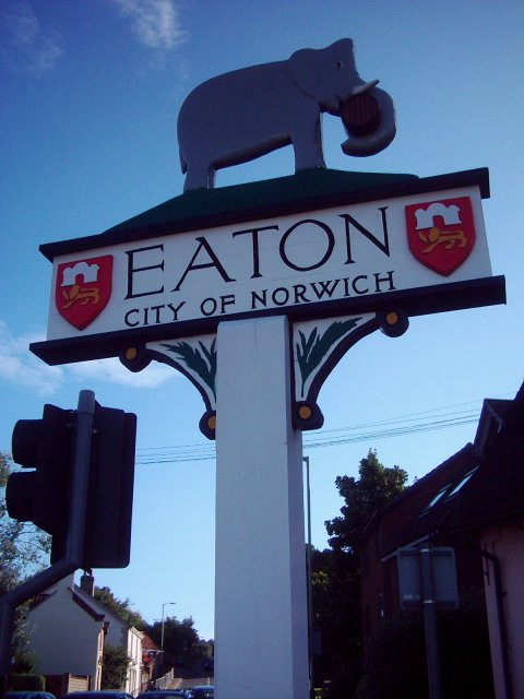 Village sign, Eaton. "The village sign, with its elephant and barrel, has been a topic of conversation over the years; it has occupied its position since 1956 and is a play on words; the ‘E’ for elephant and ‘tun’, another word for a barrel."